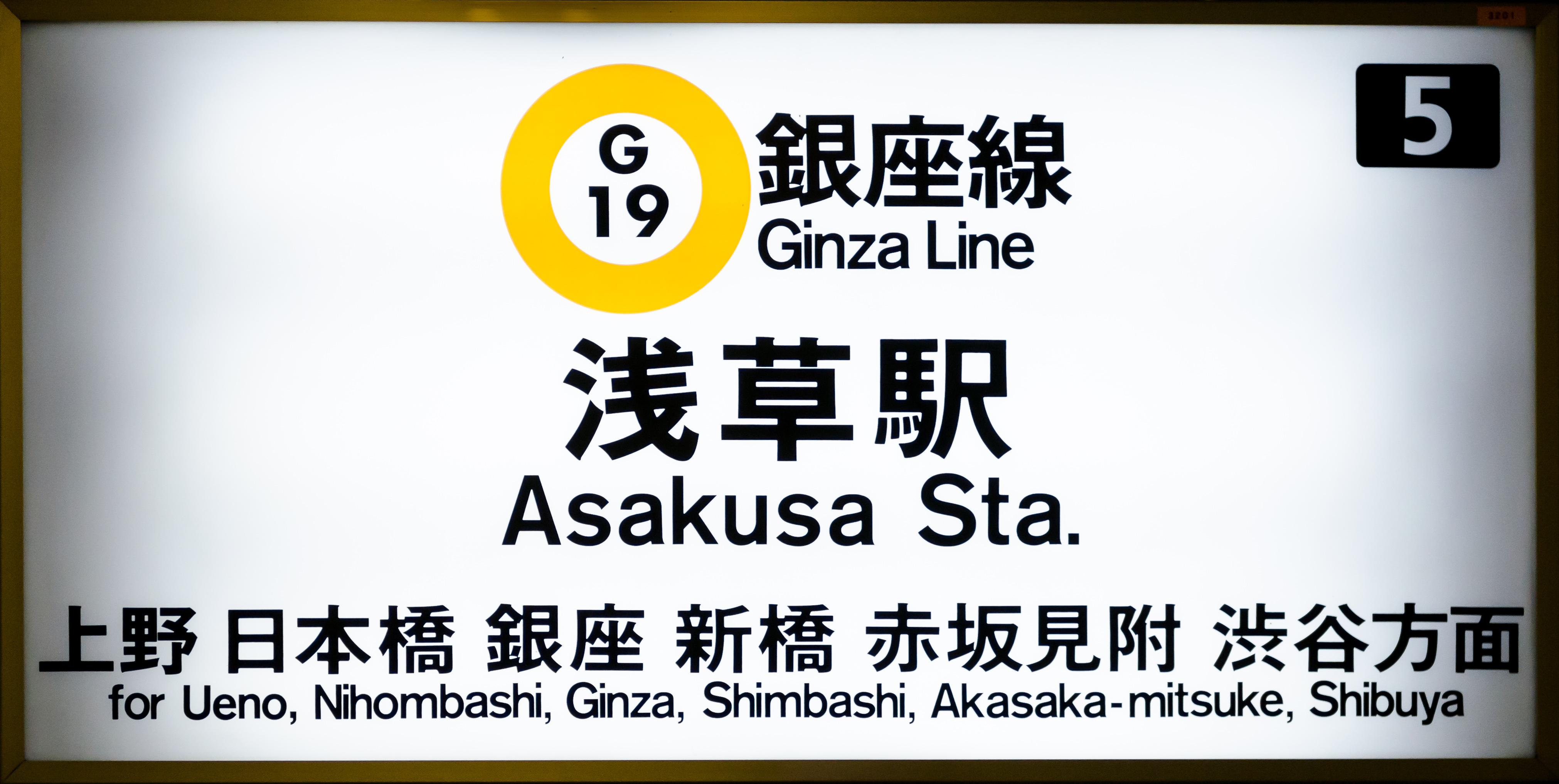 An illuminated subway sign of the Tokyo Metro, indicating entry 5 of Asakusa Station